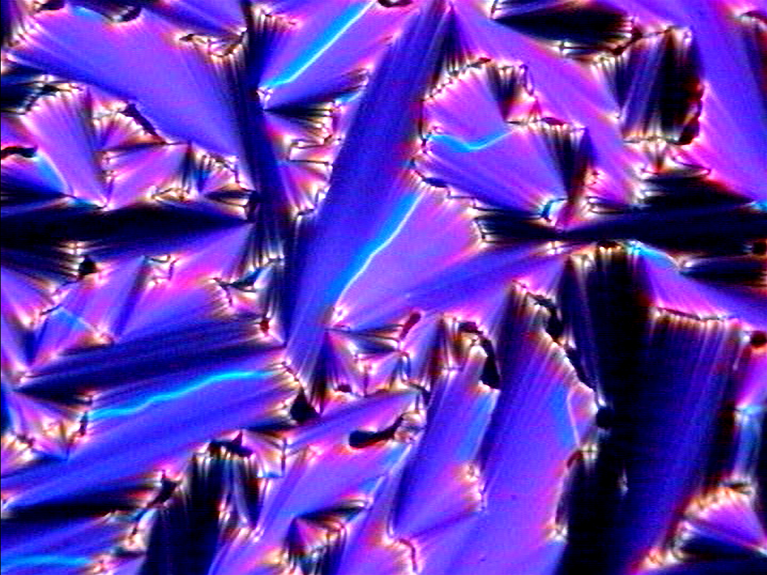 Ferroelectric liquid crystals are the only fluid ferroelectric known to man. They can be employed in very fast switching optical components and displays